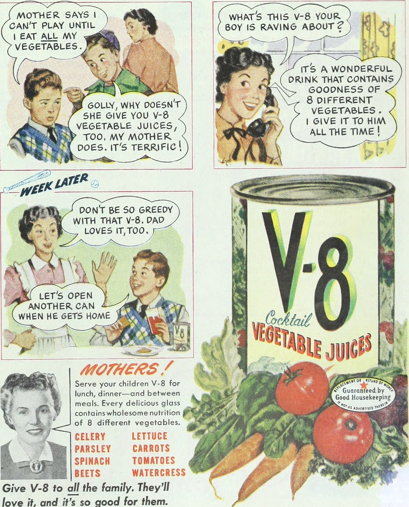 Title: The Ladies' home journal Year: 1889 (1880s) Authors: Wyeth, N. C. (Newell Convers), 1882-1945 Subjects: Women's periodicals Janice Bluestein Longone Culinary Archive Publisher: Philadelphia : (s.n.) Text Appearing Before Image: THIS IS HOW IT HAPPENED... Text Appearing After Image: Serve your children V-8 forlunch, dinner—and betweenmeals. Every delicious glasscontains wholesome nutritionof 8 different vegetables. CELERY LETTUCE PARSLEY CARROTSSPINACH TOMATOESBEETS WATERCRESS Give V-8 to a// the family. Theylllove it, and its so good for them. 176 LADIES HOME JOURNAL June, 1948 feature a I^AST WITH A FUTURE For Sunday—Roast Beef. Theres nothing finer . . . and you neednt feel like a spendthrift either—not when you can have four wonderful meat meals all for the price of one roast.